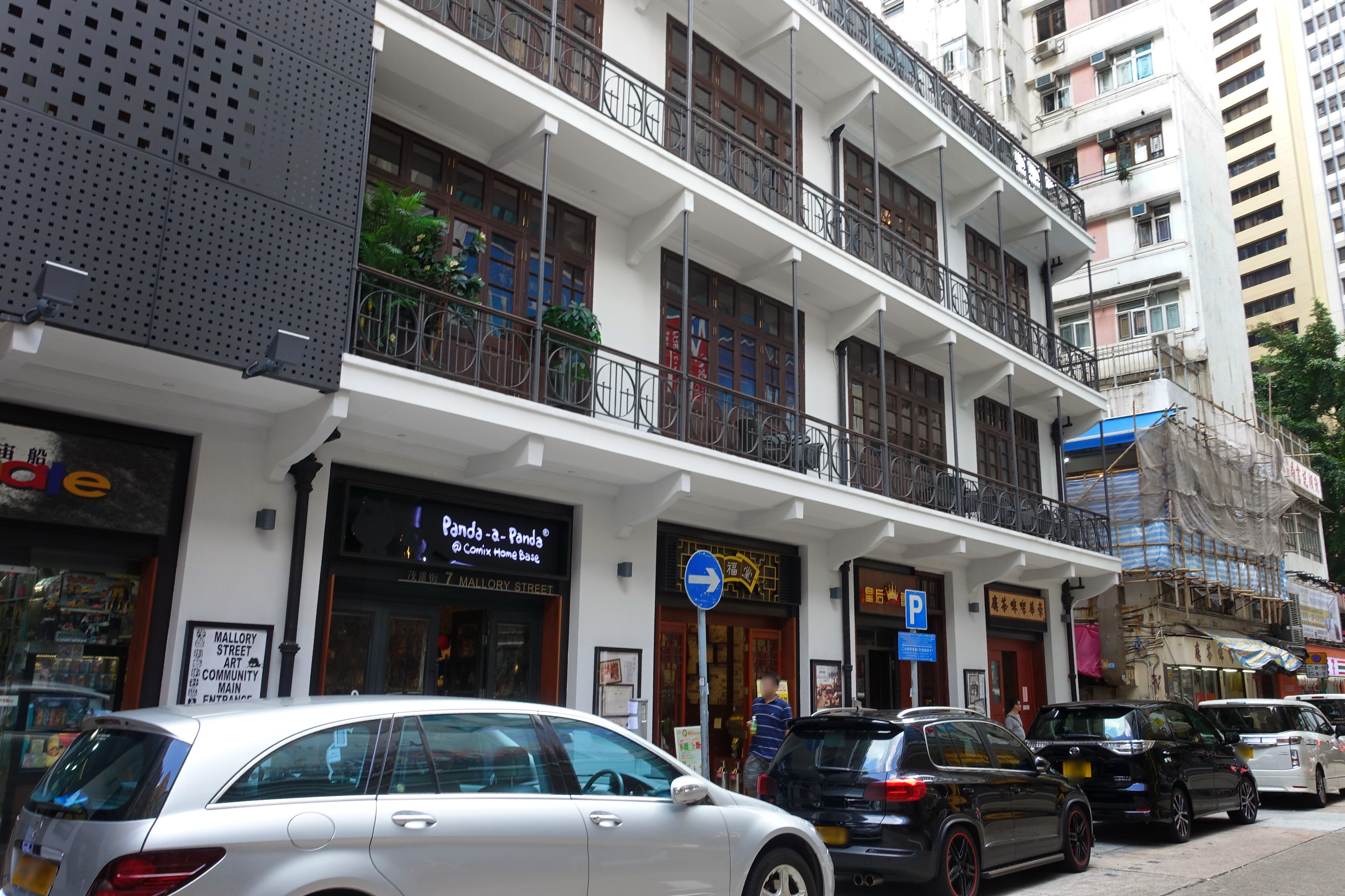 Mallory Street, Wan Chai, Hong Kong.